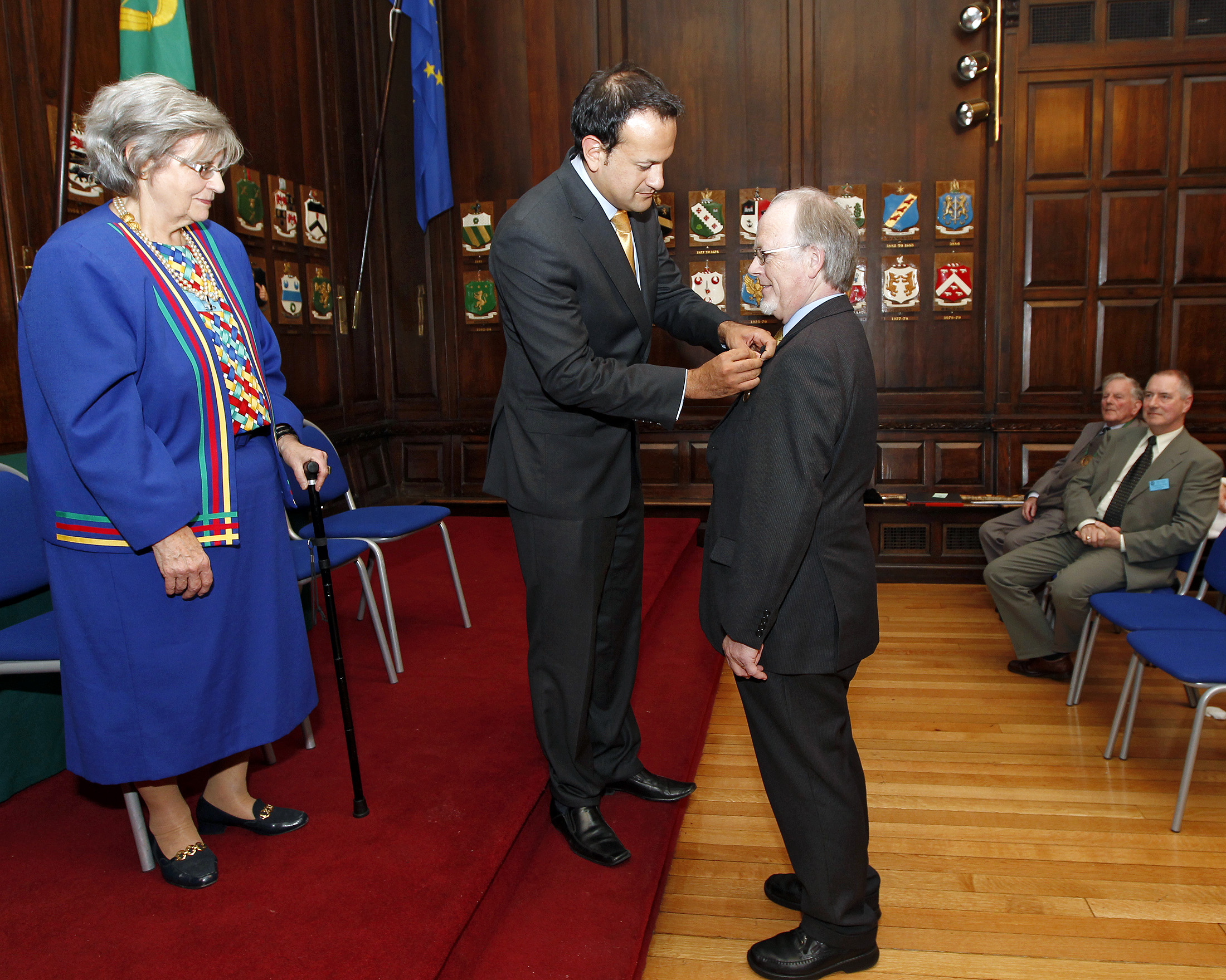 Dr. Ó Muraíle receive the Order of Clans of Ireland